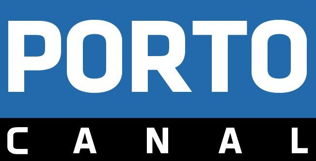 Logotipo Porto Canal